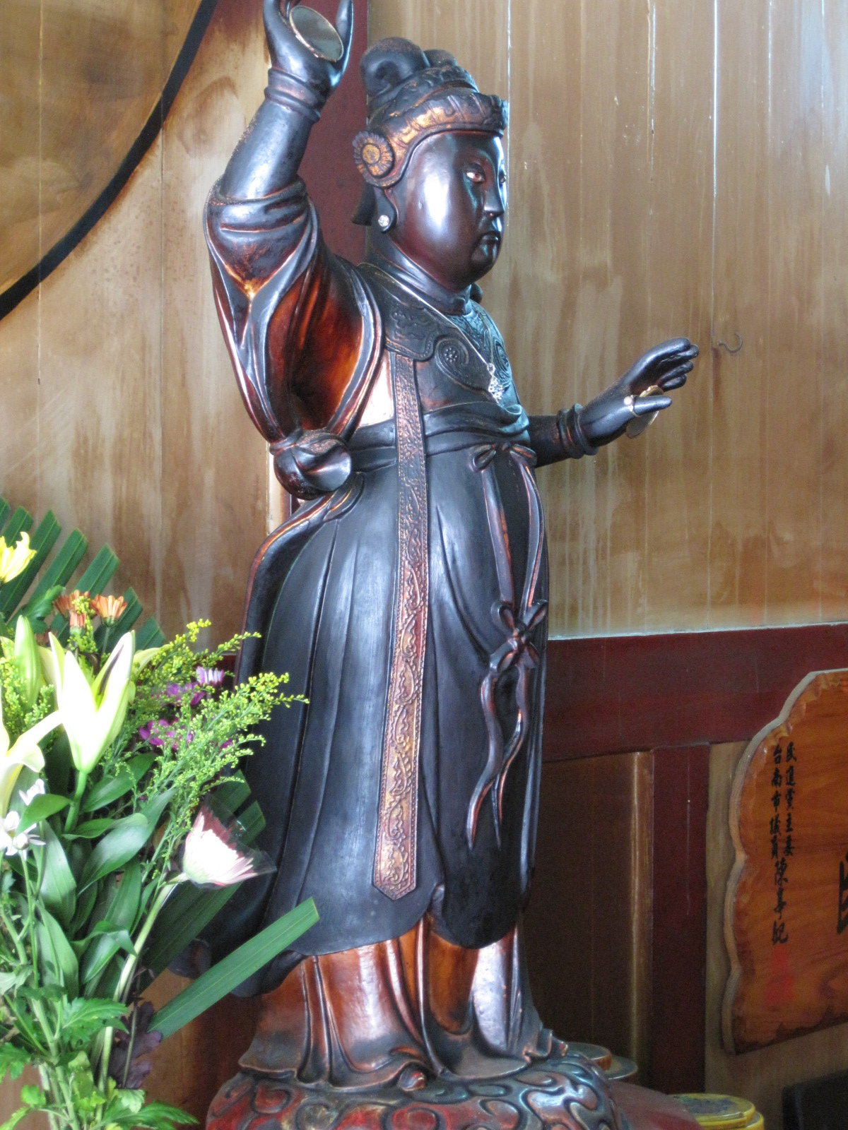 The Statue of Dian Mu in Tainan Fongshen Temple (the temple of Wind-god).